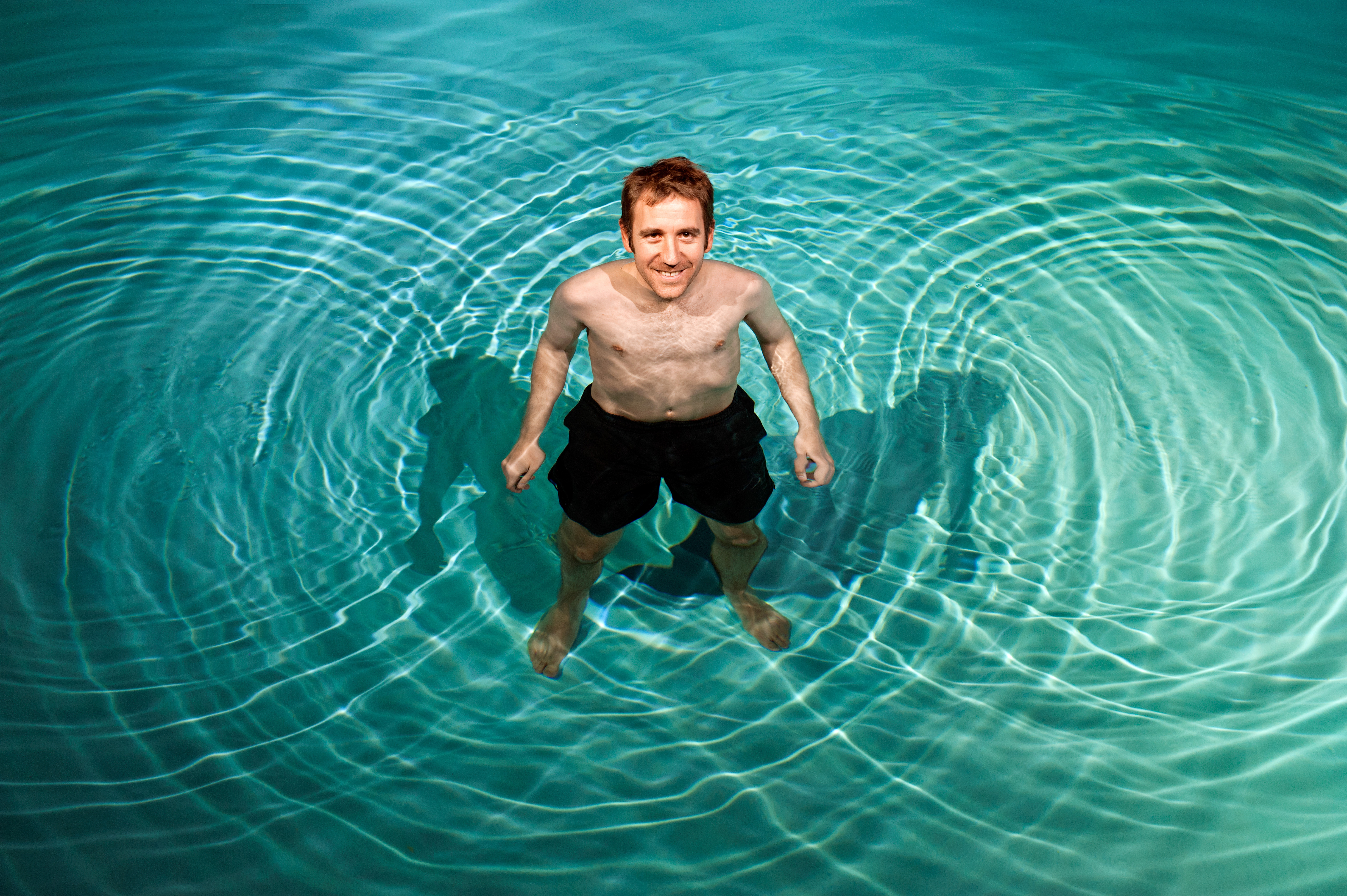 Astronomers do not always swim at the swimming pool at the Paranal Observatory Residencia, but when they do, they like to show how physical principles work. In this picture the French ESO astronomer Jean-Baptiste Le Bouquin is demonstrating how waves — not light waves, but water waves — can combine, or interfere, to create larger waves. The combination of light waves is the main principle behind the VLT Interferometer: the light waves captured by each one of the four 8-metre telescopes are combined using a network of channels and mirrors. This way the spatial resolution of the telescope is vastly increased and, with enough exposure time, the cameras and instruments can reveal the same level of detail as a telescope with a 130-metre diameter mirror could, far bigger than any telescope in existence. This image was taken by award-winning editorial and commercial photographer Max Alexander. See also Tribute to ESO’s Unsung Heroes, a video released by ESO for its 50th anniversary in 2012. The video is composed of a set of images, most of which were taken by Alexander, who was visiting the ESO sites for a project dedicated to ESO’s anniversary.